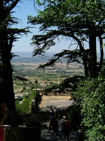 View of the Luberon valley.